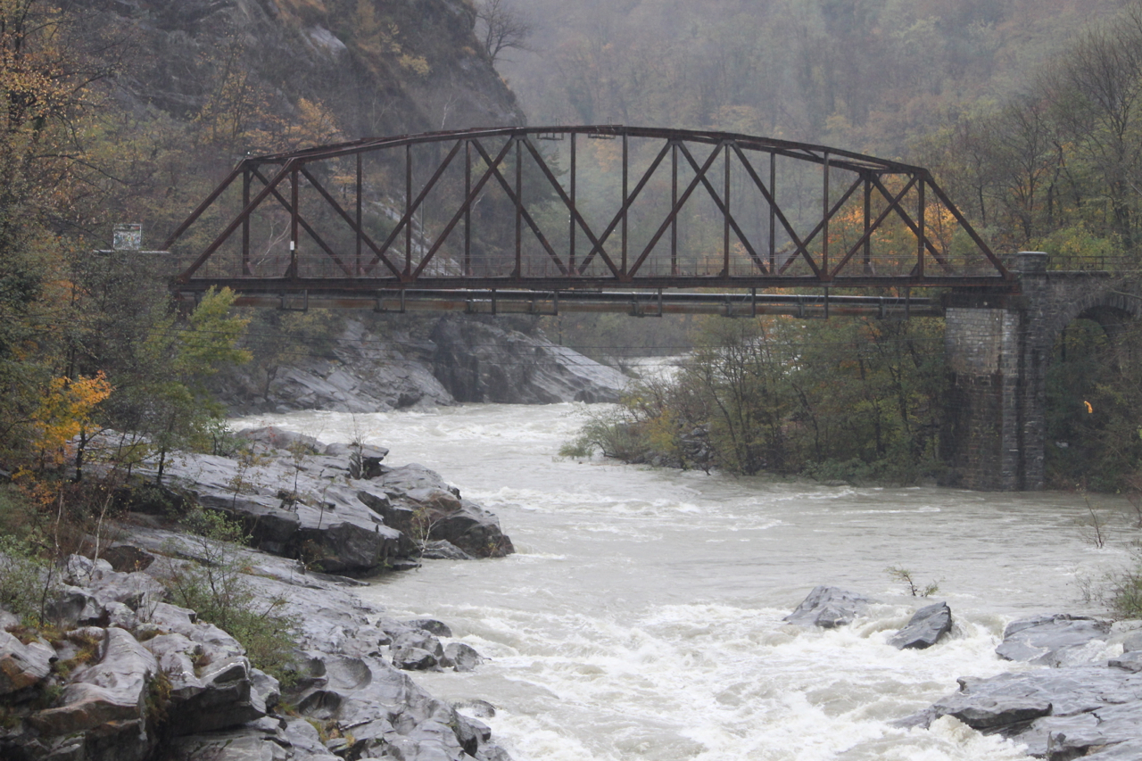 Bridge over river Maggia at Ponte Brolla (former Locarno-Ponte Brolla-Bignasco railway)